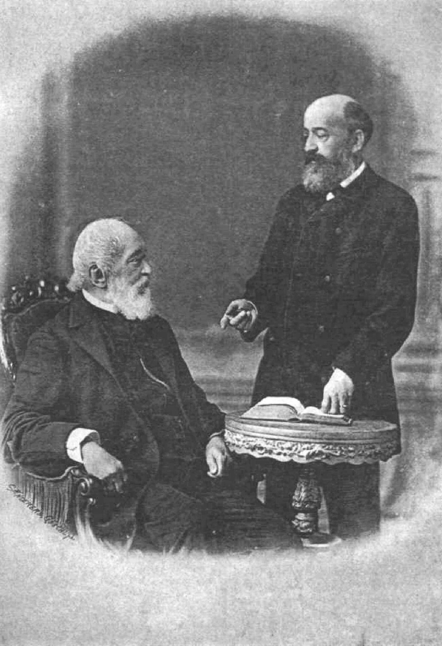 Ignác Helfy and Lajos Kossuth